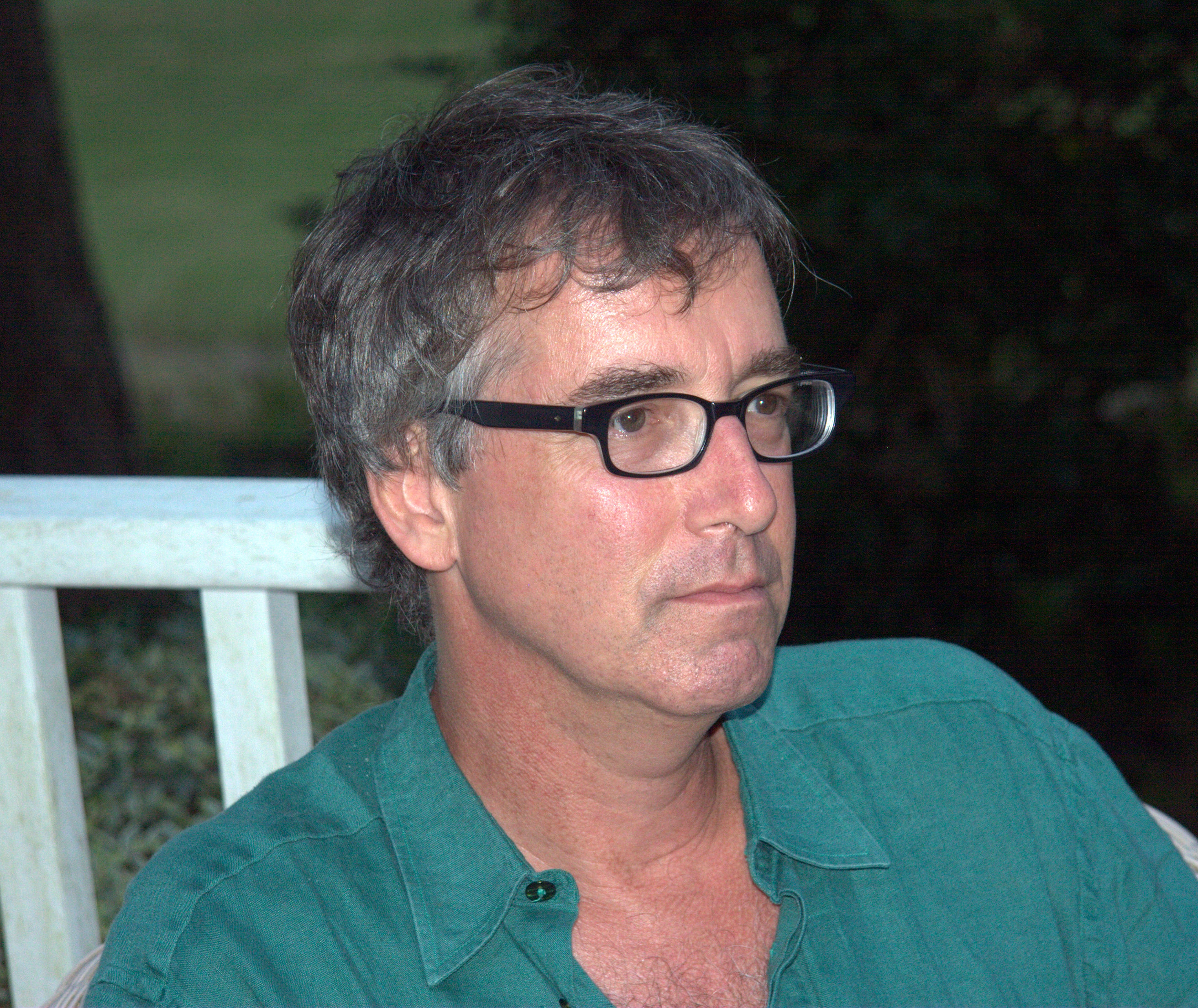 Jonathan Kane while visiting Raleigh, NC, for Hopscotch Festival in 2013.